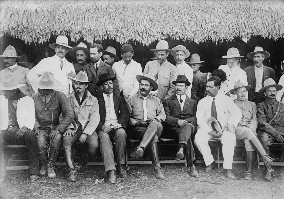 Gen. Lucio Blanco and staff. [between ca. 1910 and ca. 1915] 1 negative : glass ; 5 x 7 in. or smaller. Notes: Title from unverified data provided by the Bain News Service on the negatives or caption cards. Forms part of: George Grantham Bain Collection (Library of Congress). Format: Glass negatives. Repository: Library of Congress, Prints and Photographs Division, Washington, D.C. 20540 USA, General information about the Bain Collection is available at Persistent URL: Call Number: LC-B2- 2823-5